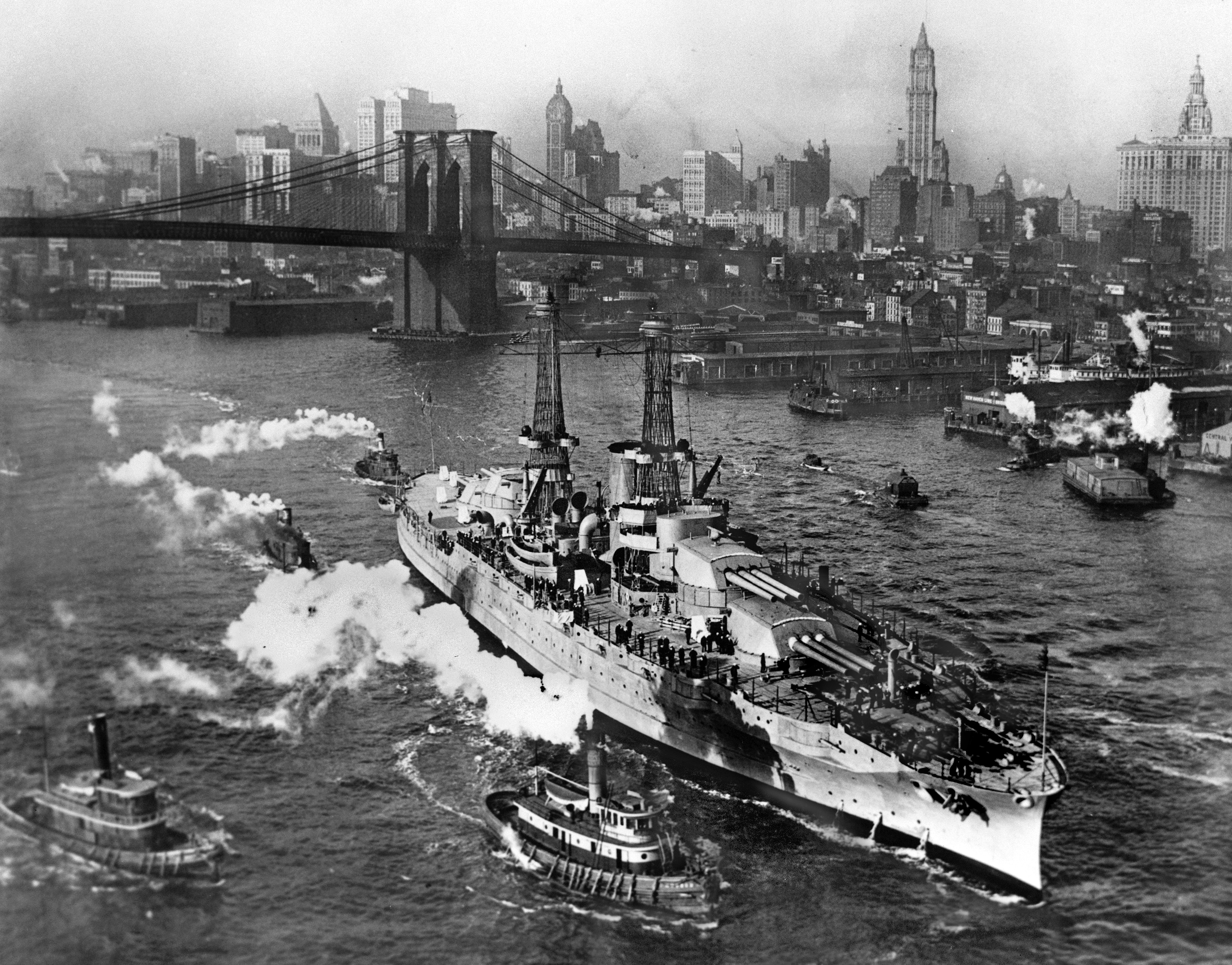 View of the Arizona returning from initial sea trials, taken from the Manhattan Bridge on December 25th, 1916.